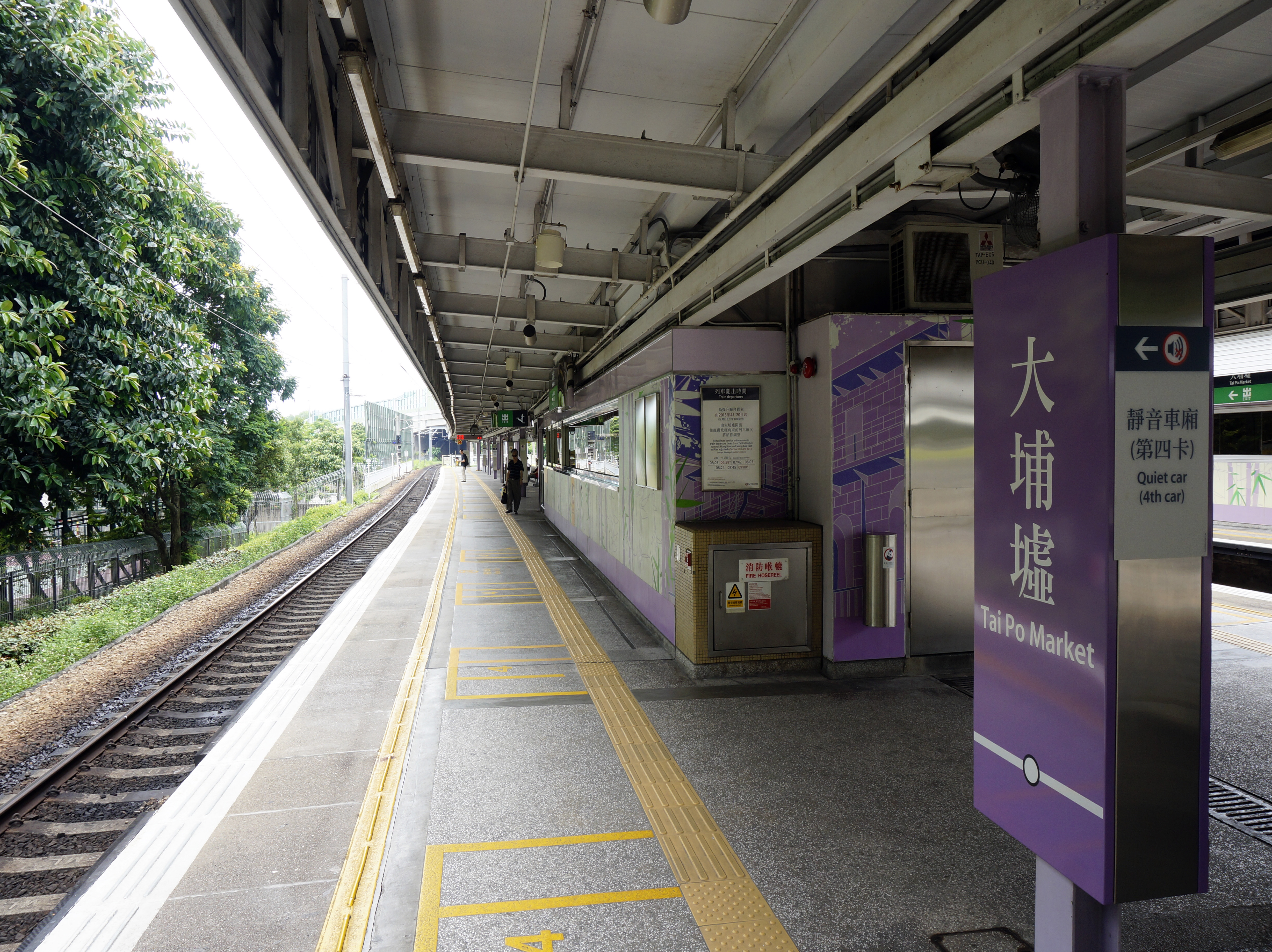 MTR Tai Po Market station platforms